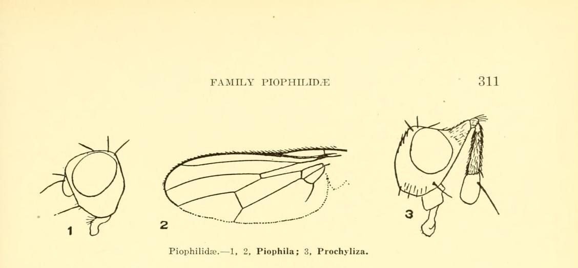 Charles Howard Curran , 1934 The families and genera of North American Diptera C.H. Curran in [New York] Illustration from S.W. Williston Manual of North American Diptera (1888, 1896, 1908) Sepsidae